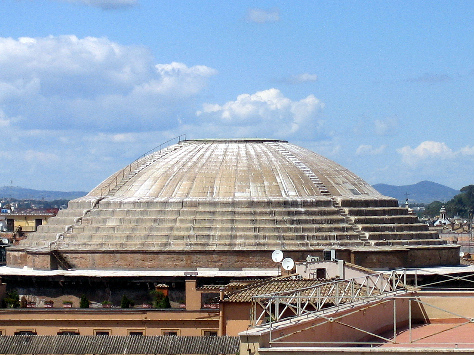 Misleadingly low, the Pantheon's exterior dome steps outwards as it meets the uppermost ring of the drum.